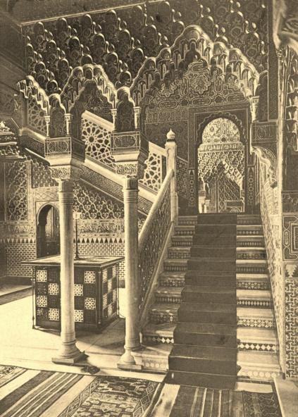 Interior of the Palacio de Xifré (Madrid)